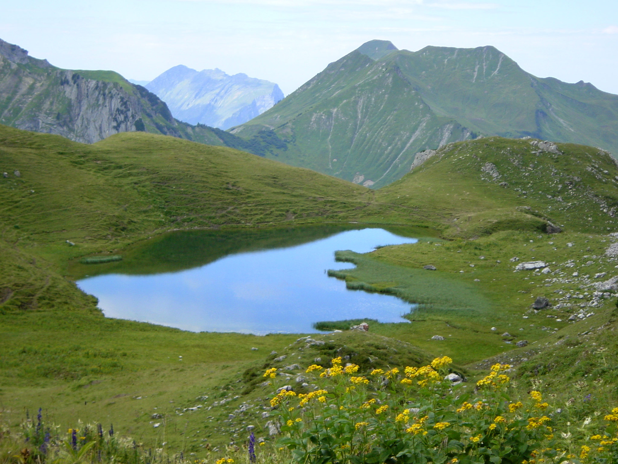 Hochalpsee, a mountain lake in the Kleinwalsertal